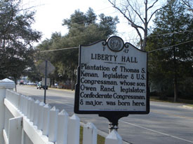 Road marker outside Liberty Hall Plantation in Kenansville, North Carolina; built by Thomas Kenan.